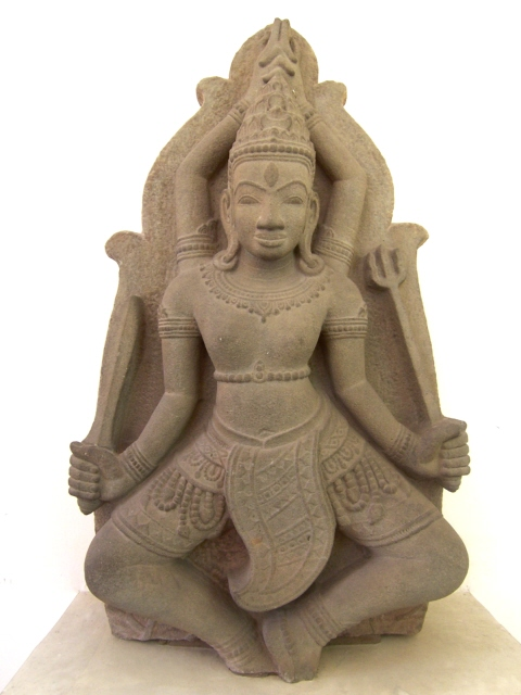 I made this picture and release it into the public domain. It depicts a late 11th century or 12th century high relief sandstone sculpture of Shiva. It belongs to the Thap Mam Style of the art of Champa.